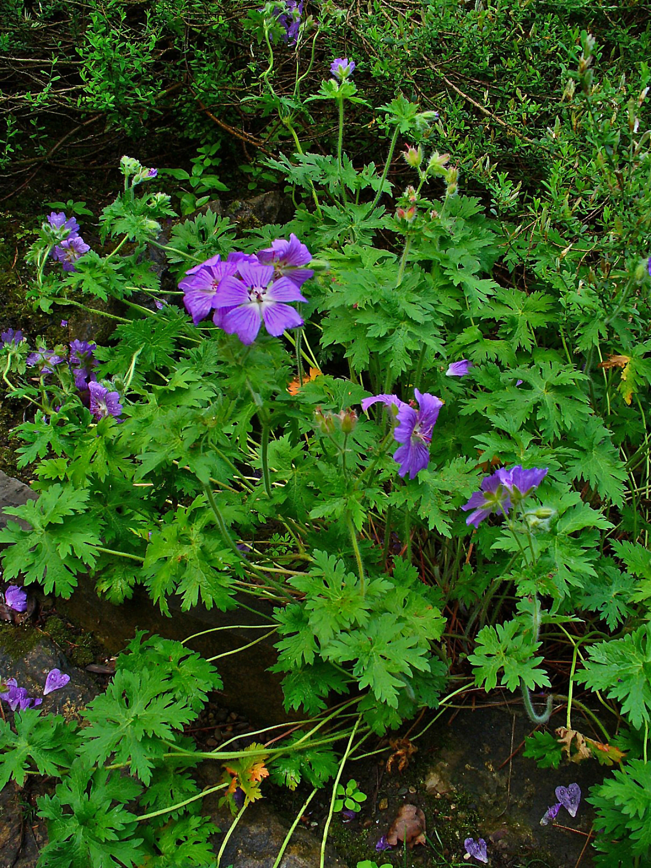 Geranium cinereum ssp. subcaulescens, Geraniaceae, Ashy Cranesbill, habitus; Botanical Garden KIT, Karlsruhe, Germany.